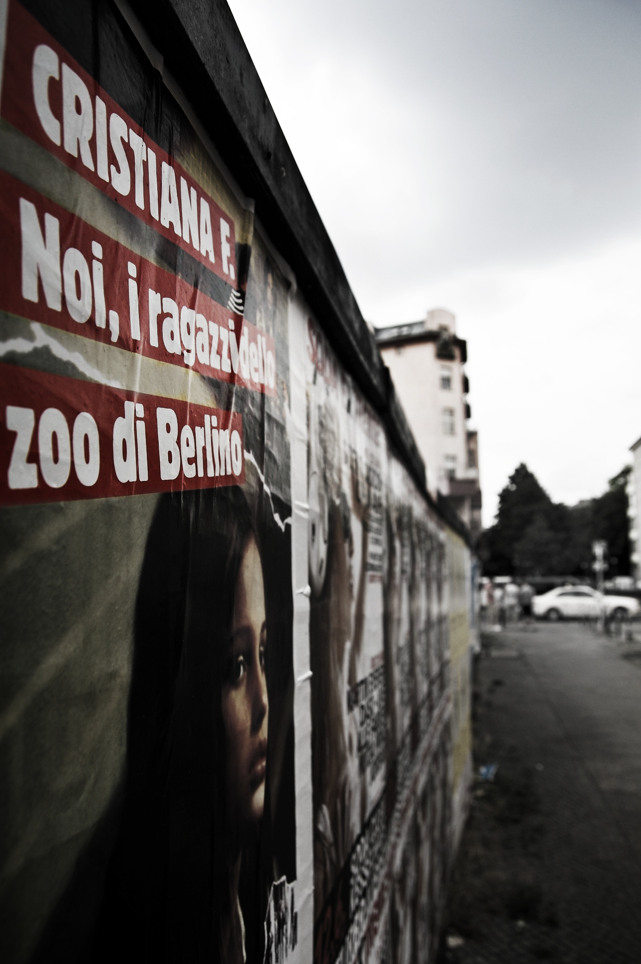 Poster of the film about Christiane F